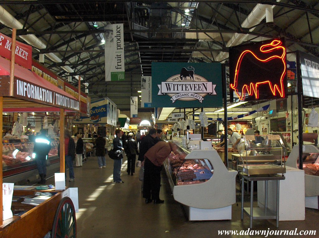 St Lawrence Market, Toronto, Canada. Walk through the unique shops and enjoy the atmosphere. Same picture can also be found at Canada's Personal Finance Weblog